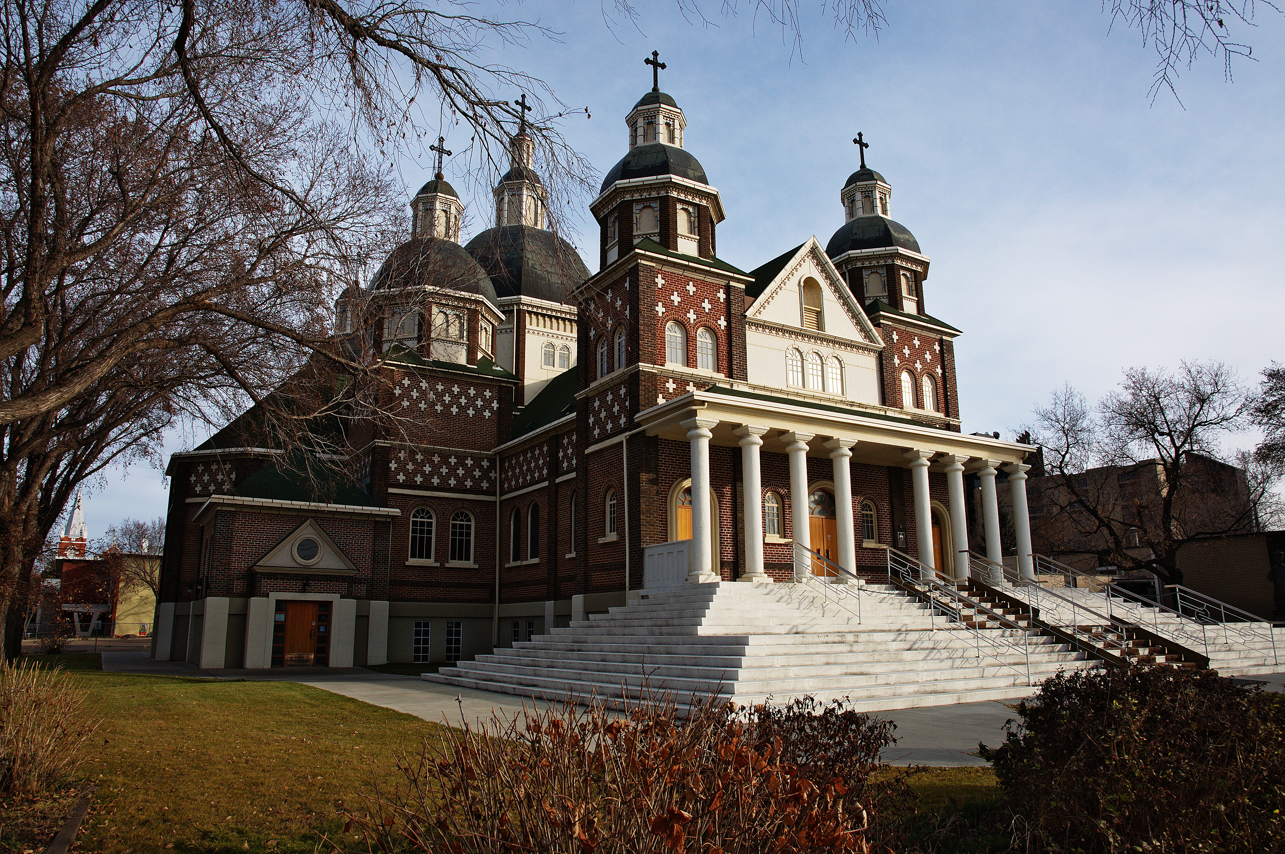 St. Josaphat's Ukrainian Catholic Cathedral, 10825-97 Street. 1939. Prairie cathedral style. Shaped as a cross with seven copper domes representing the seven gifts of the Holy Spirit.